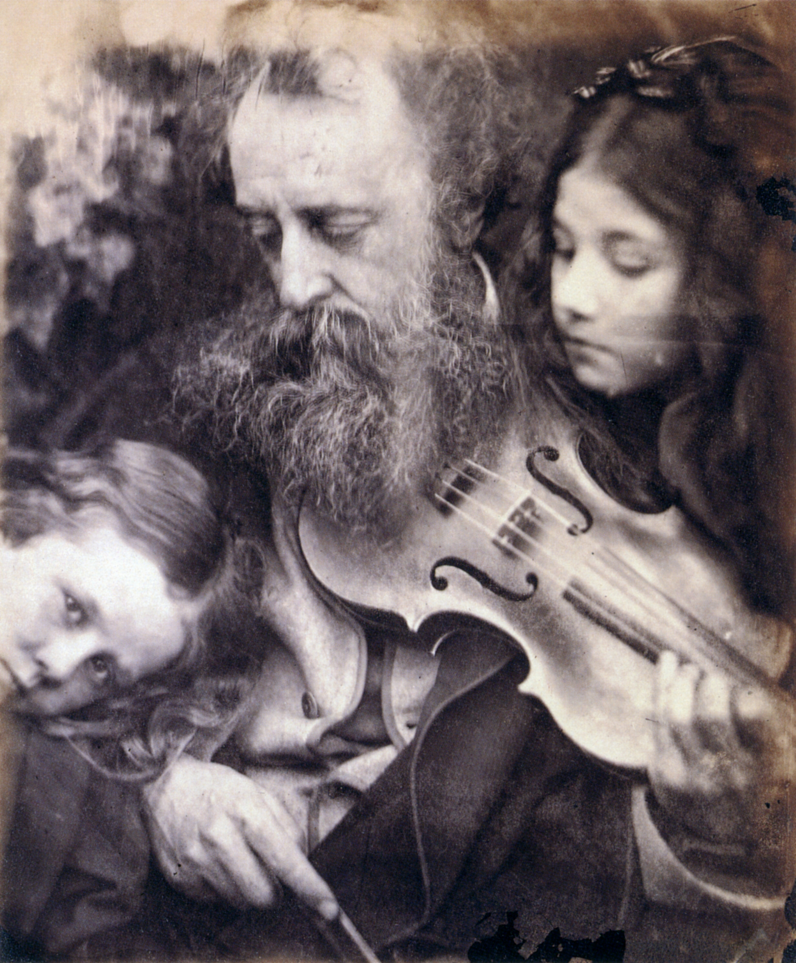 The Whisper of the Muse. Elizabeth Keown, G.F. Watts and Kate Keown. Albumen print, 261 x 215mm (10 1/4 x 8 1/2").